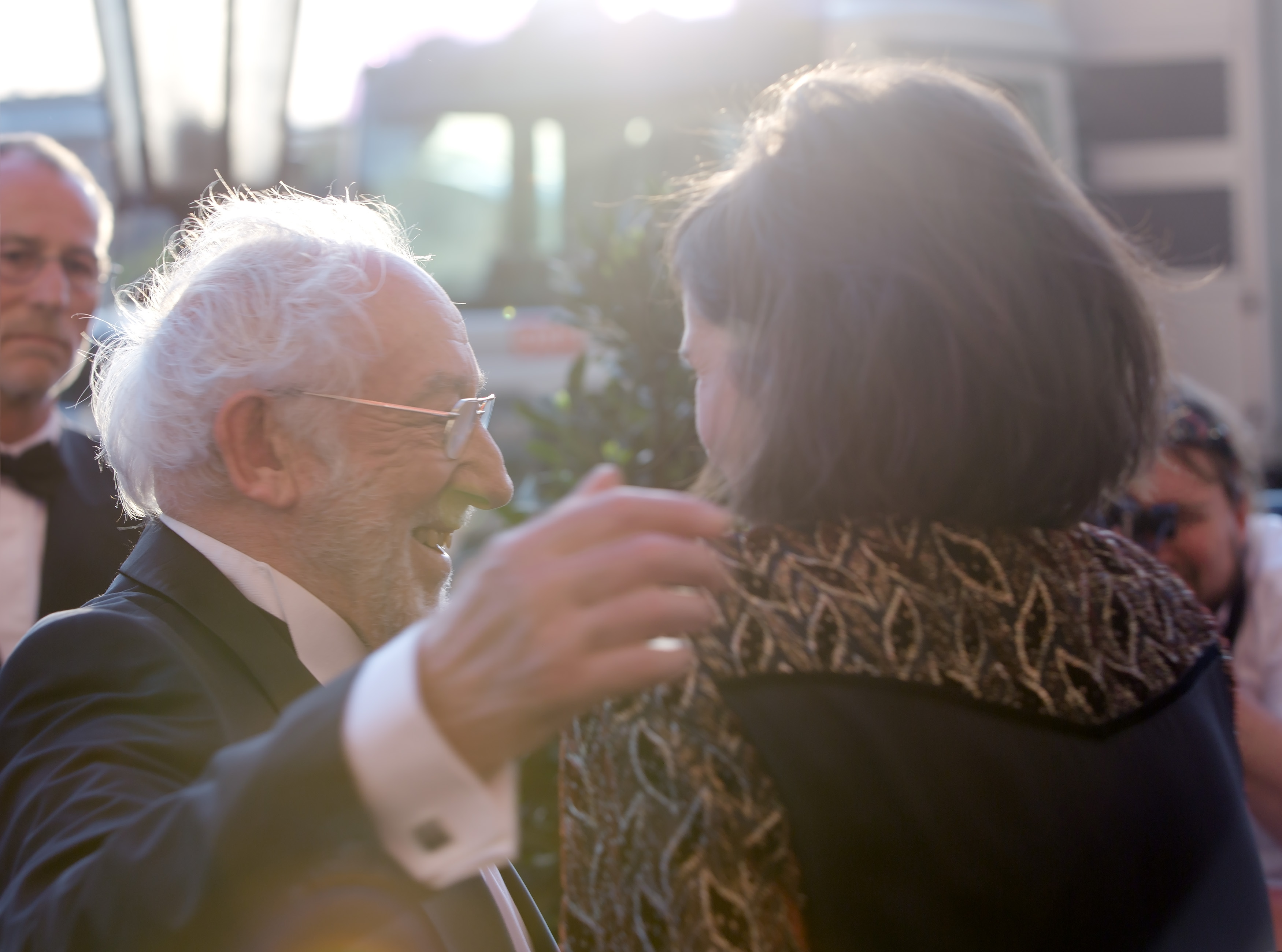 Dieter Hallervorden and Nora Tschirner on the red carpet of the Romy TV awards at Hofburg Palace in Vienna, Austria.